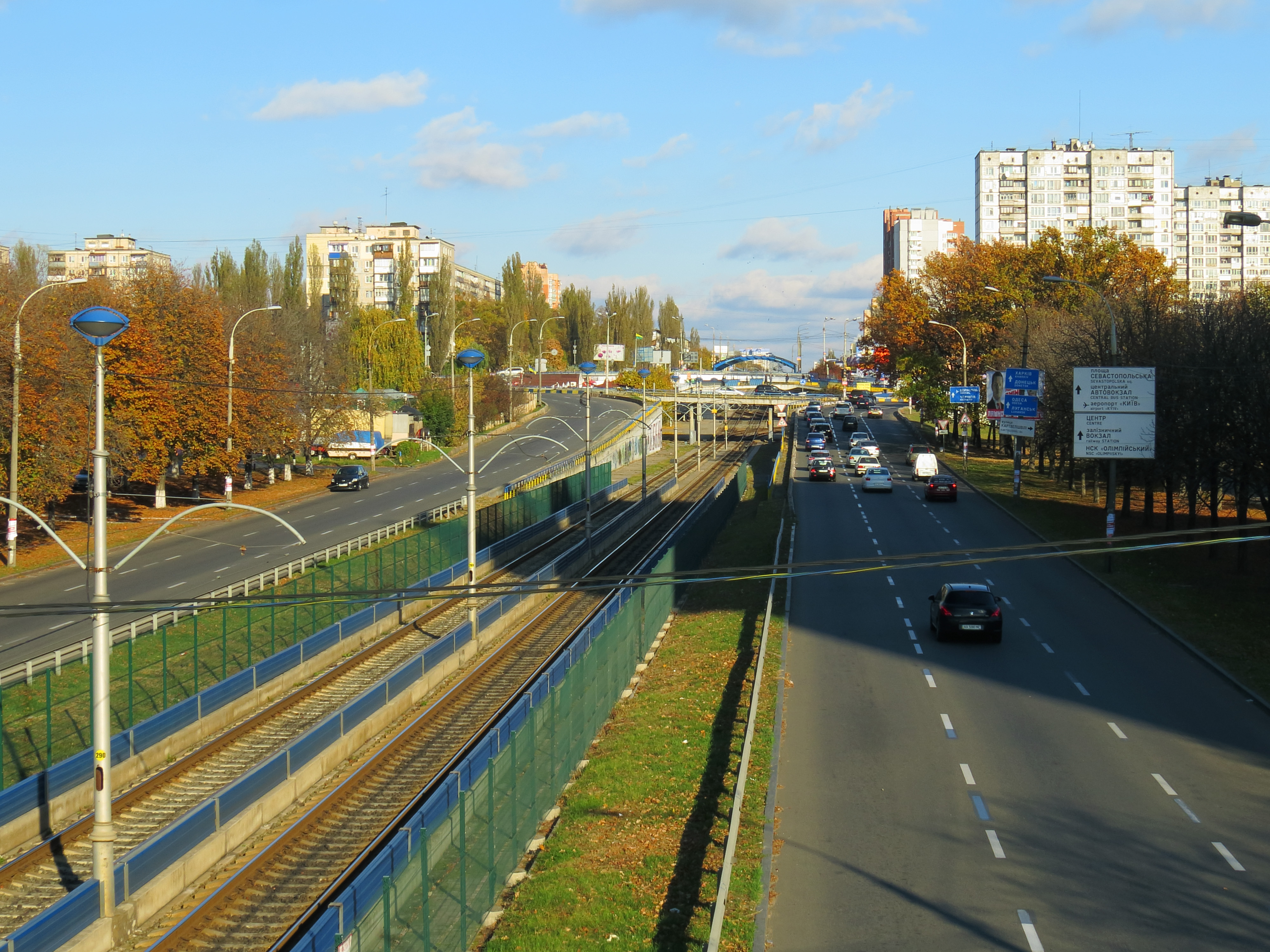 Lesia Kurbasa Avenue, Kiev, Ukraine